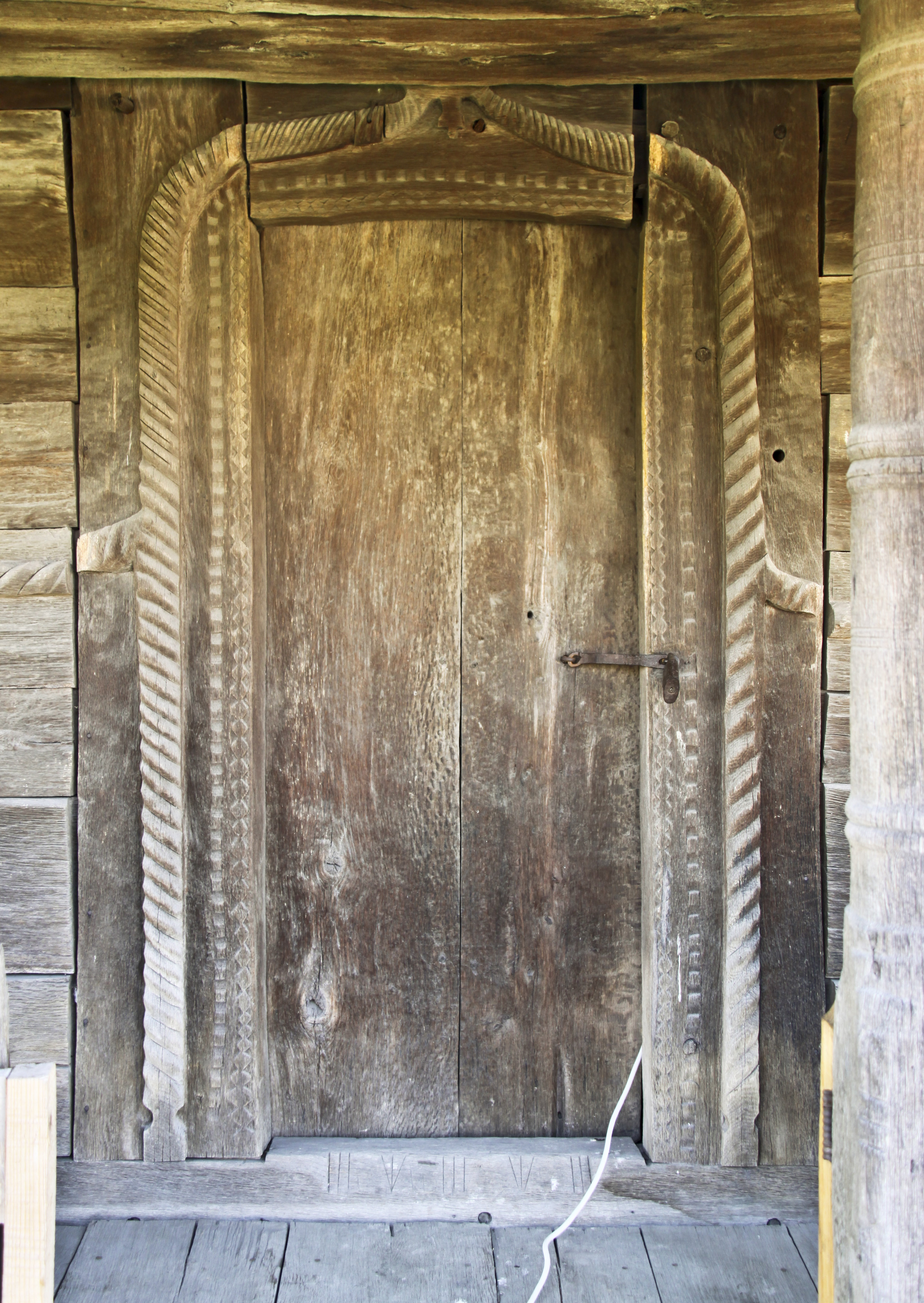 Dămţeni-Păsărei, Vâlcea county, Romania: the wooden church.